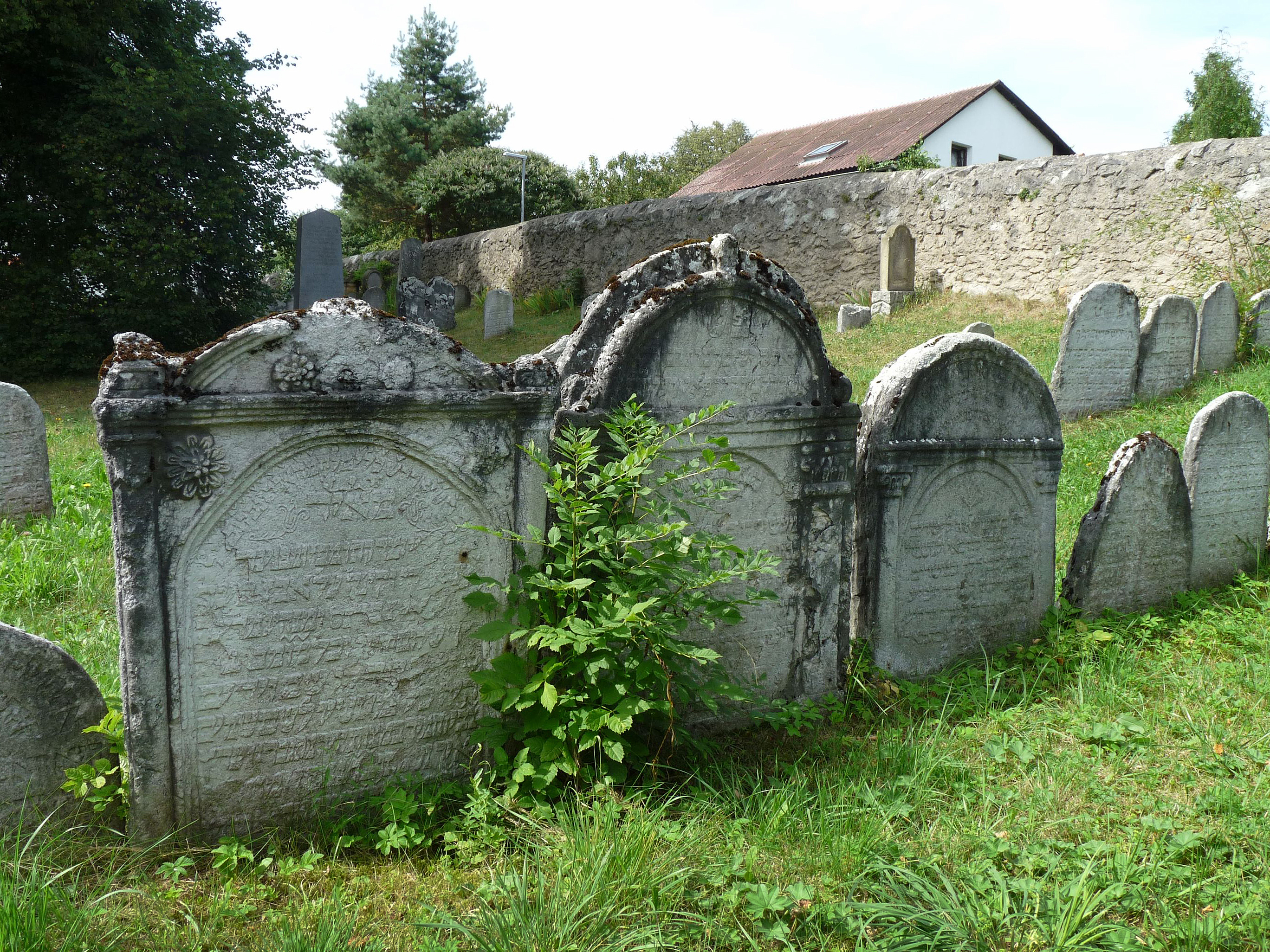 Gravestones in the Jewish cemetery in the town of Volyně, Strakonice District, Czech Republic